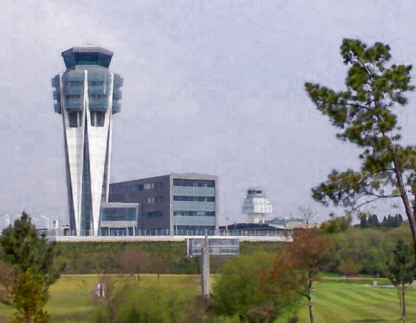 Lavacolla Airport, Santiago de Compostela.